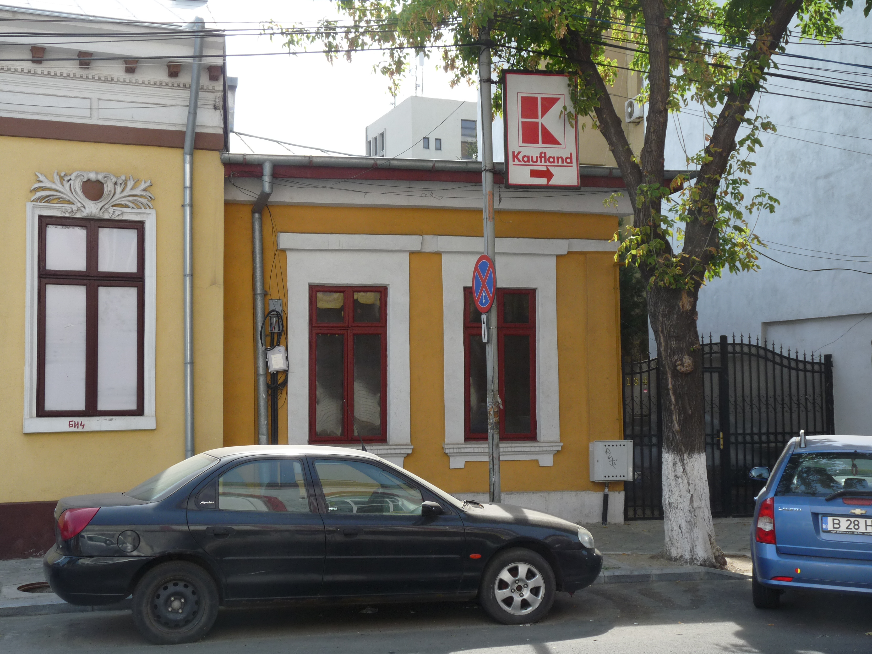 Historic building in Bucharest, Romania, at Eminescu street 134Română: Clădire istorică din București, România, în strada Mihai Eminescu, nr. 134